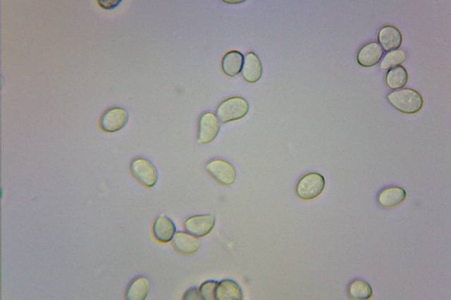 Arrhenia chlorocyanea (Pat.) Redhead, Lutzoni, Moncalvo & Vilgalys Image location: Lacey, Washington, USA Blue & blue-green. Found today along a trail. Only 3 specimens found. Recognized by sight: a good year for these, apparently, all along the West Coast. For more information about this, see the observation page at Mushroom Observer.